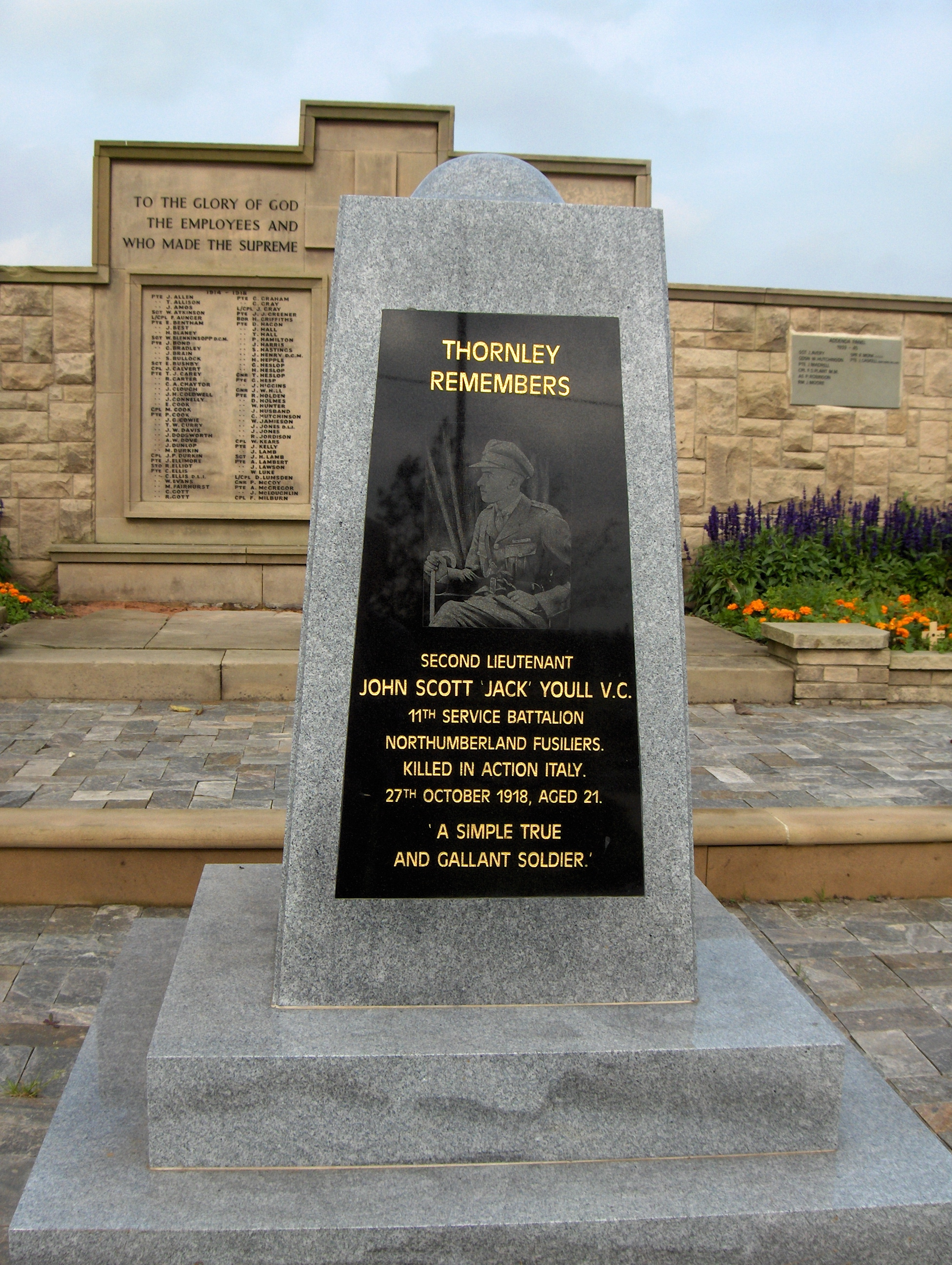 This is a close-up of the John Scott Youll VC Memorial in Thornley County Durham which was unveiled in October 2005. The four faces of the memorial briefly detail his life, Army career and the citation for the Victoria Cross award.